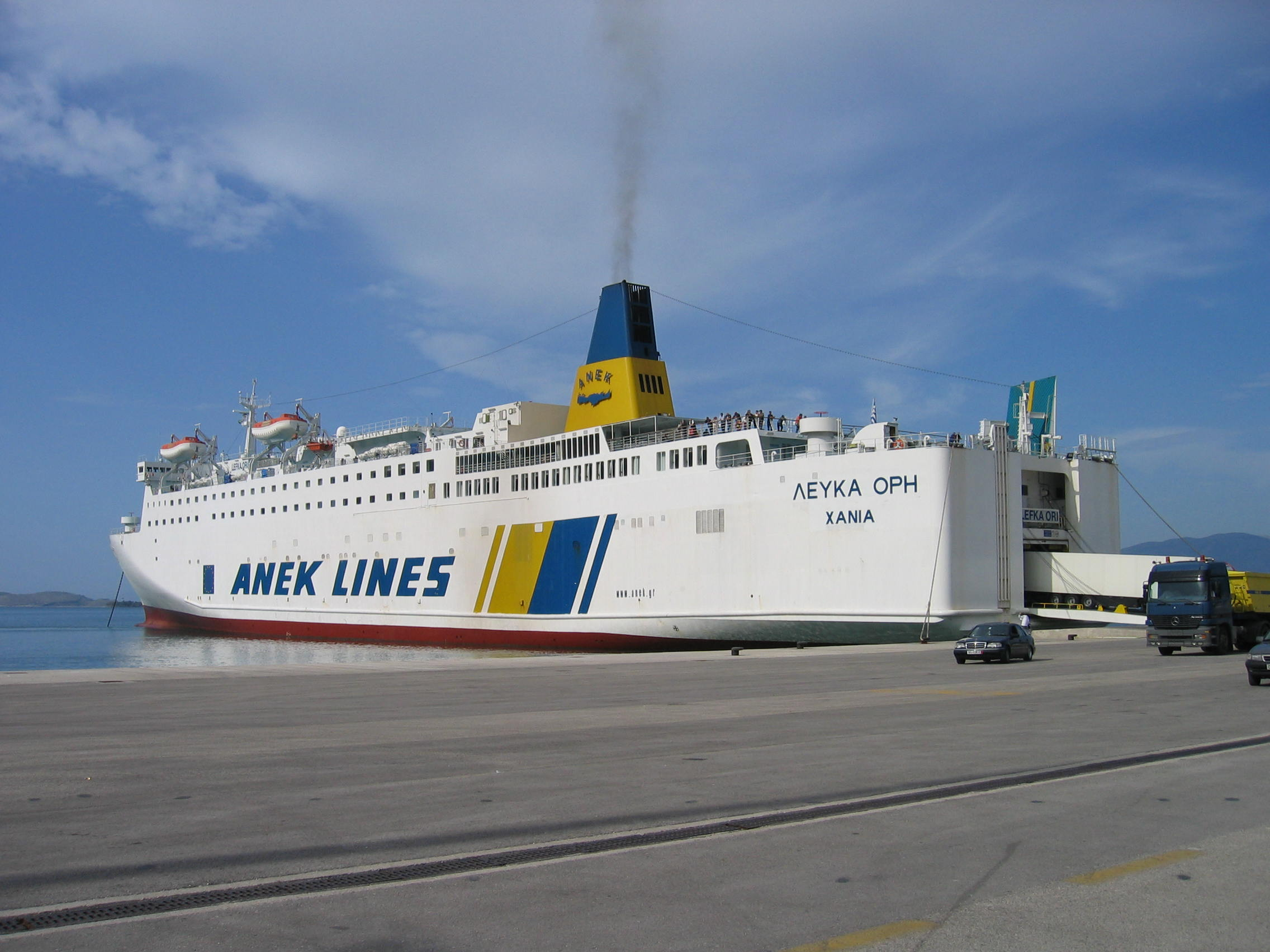 Greek ferry Lefka Ori, SWDA, IMO 9035876, of ANEK lines